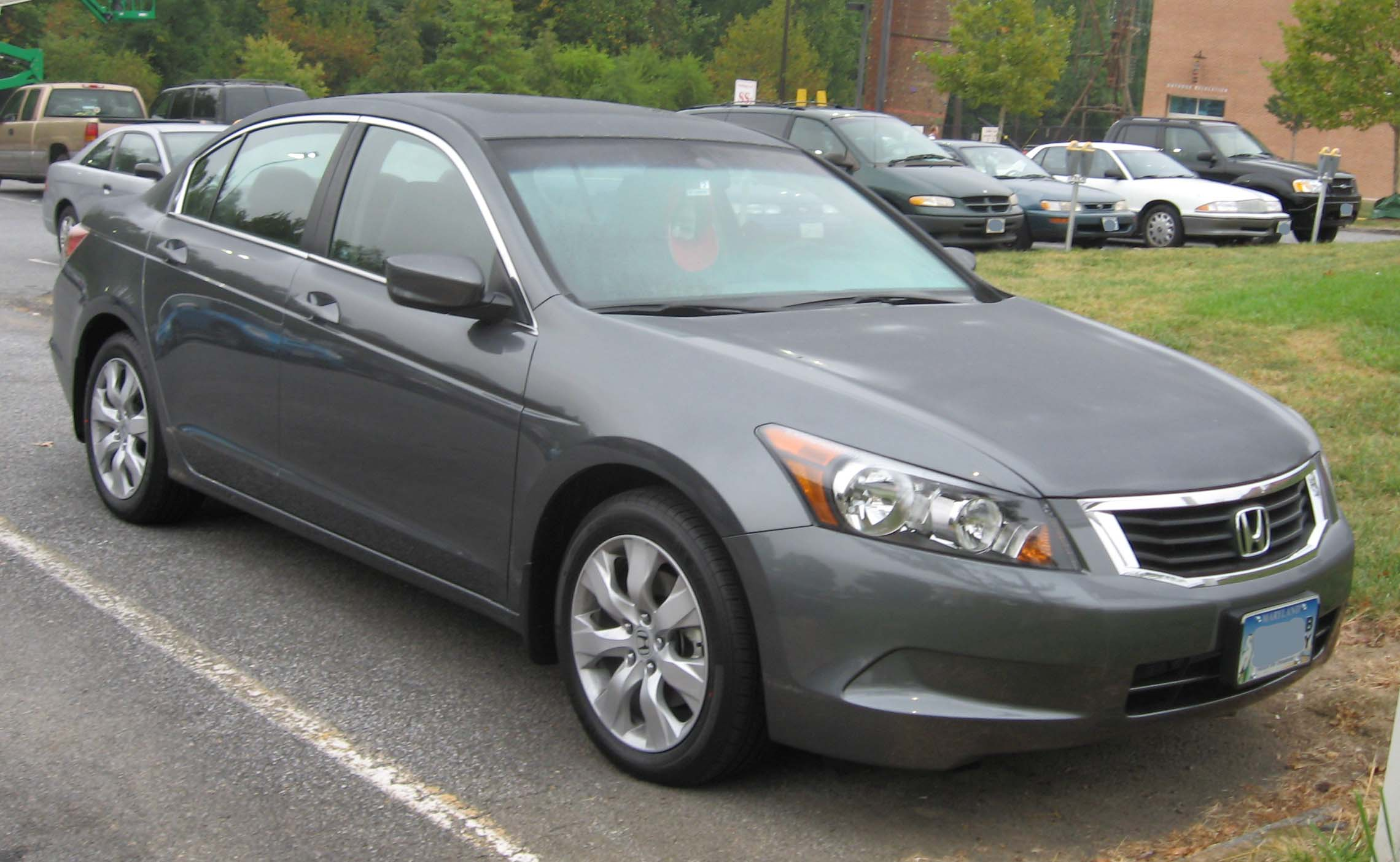 2008 Honda Accord photographed in College Park, Maryland, USA.